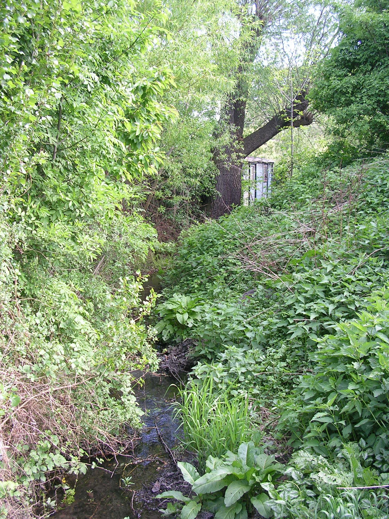 Michle, Prague, the Czech Republic.